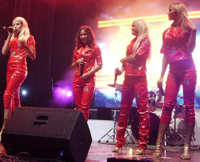 Lithuanian pop-dance musical group "69 Danguje"